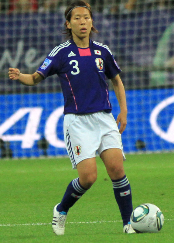 Azusa Iwashimizu playing for Japan against Sweden in the 2011 FIFA Women's World Cup semi finals